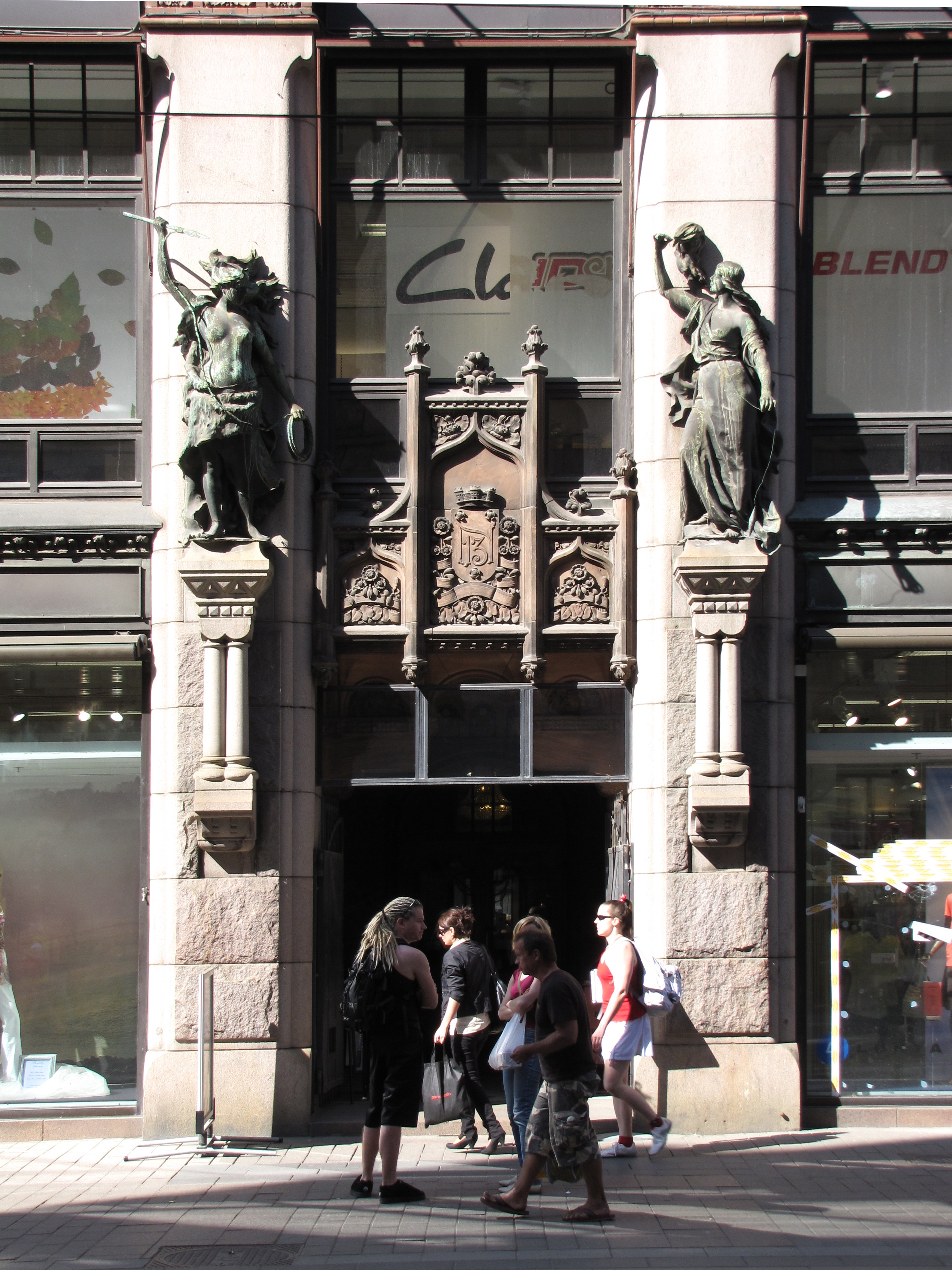 Kehruu ja Metsästys (Spinning and Hunting) statues at the main entrance of Aleksanterinkatu 13. Sculpted by Robert Stigell in 1900.